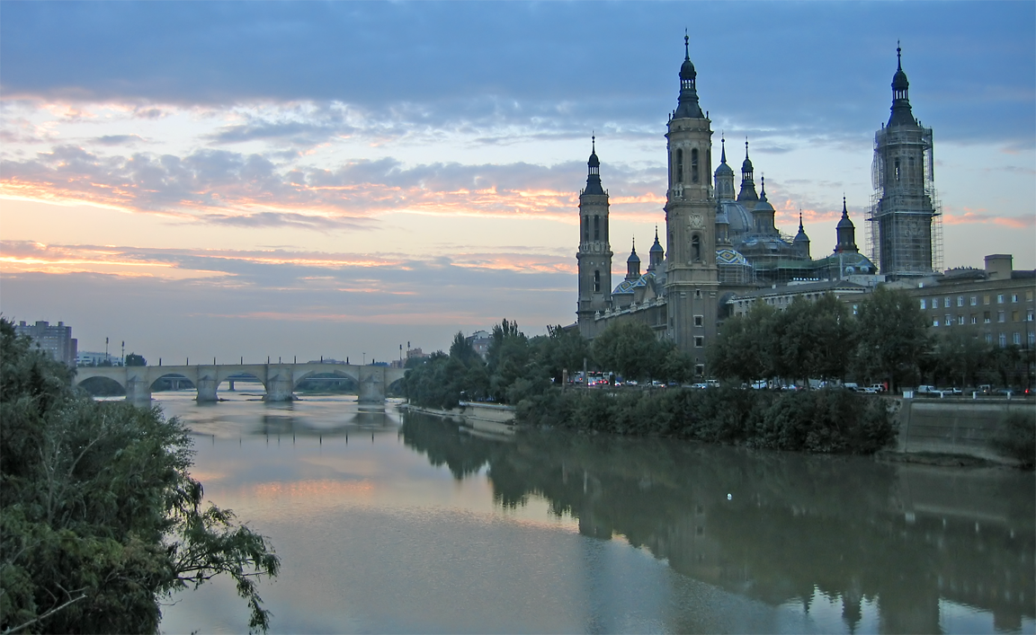 El Pilar, Stone Bridge and Ebro river in Saragossa, Spain.